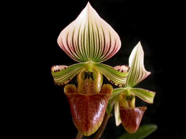 Paphiopedilum